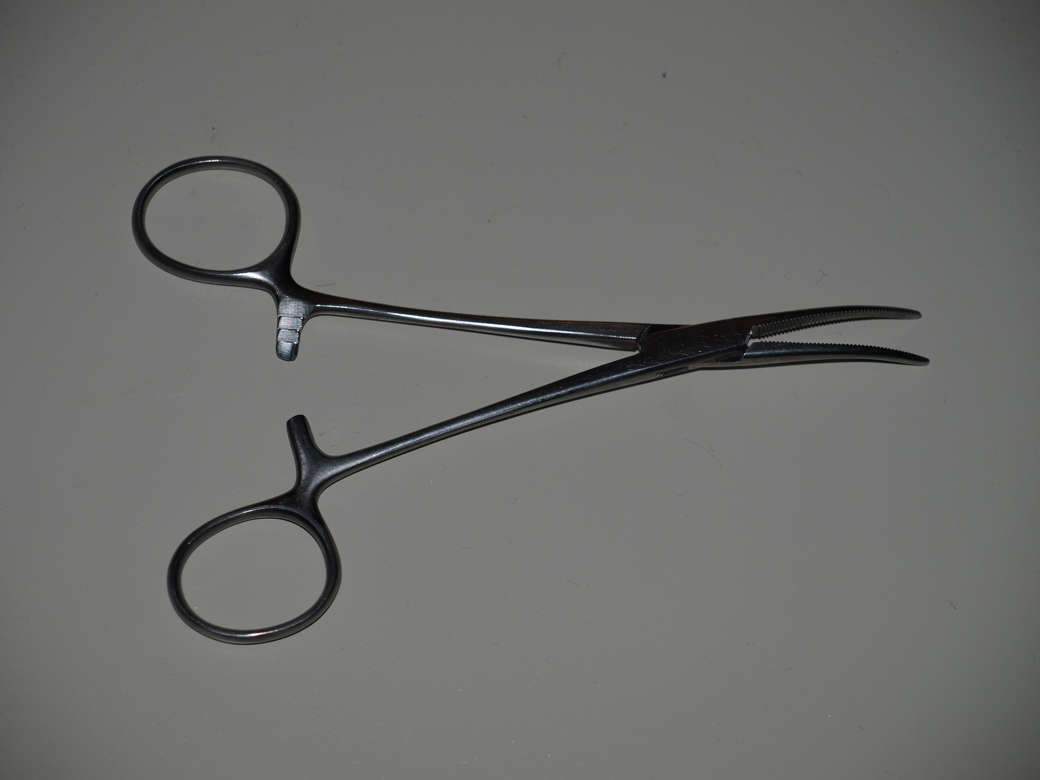 Arteryforceps for surgical operations.